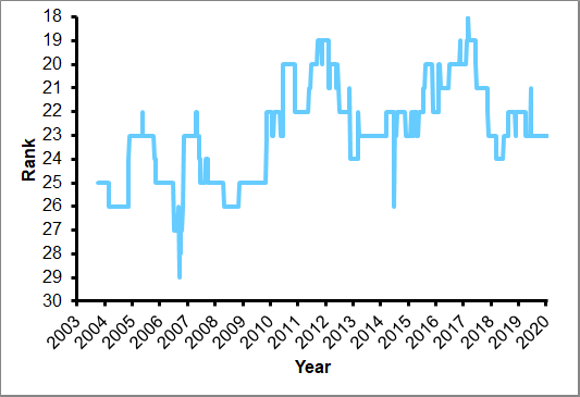 IRB World Rankings from